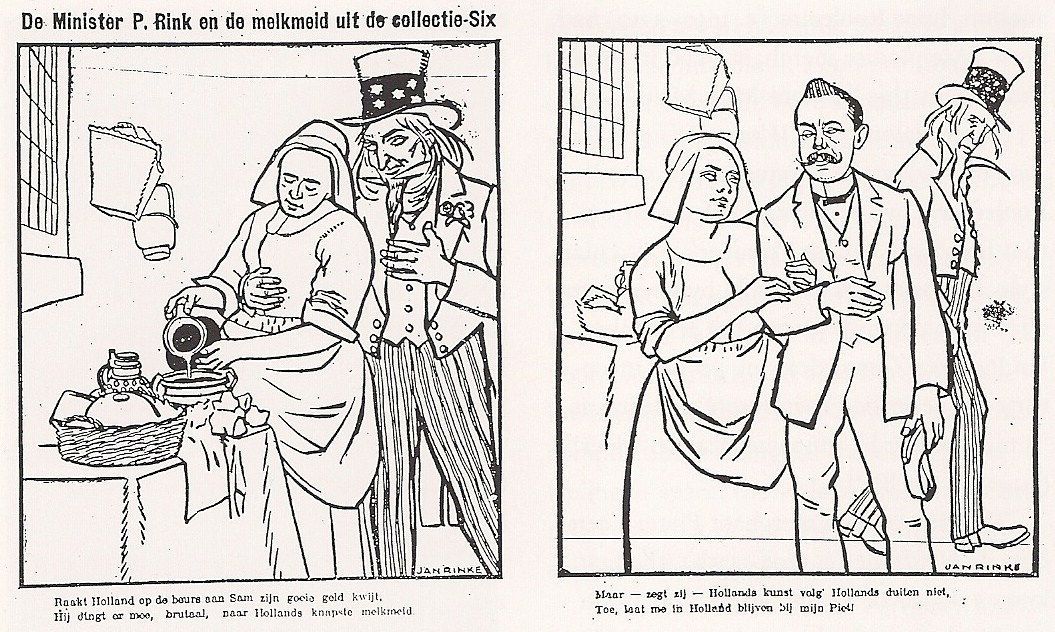 A two-panel cartoon by Jan Rinke, titled "De Minister P. Rink en de melkmeid ult de collectie-Six", both published November 9, 1907, in the Dutch publication Het Vaderland. A 1907 Dutch cartoon by Jan Rinke, reflecting a controversy over whether the government of the Netherlands should purchase Vermeer's "Milkmaid" painting rather than let it possibly fall into the hands of some rich American art collector. In the first panel, Uncle Sam woos the Milkmaid, in the second she walks off with Netherlands politician Pieter Rink (Minister of the Interior at the time), as Uncle Sam looks dejected in the back ground. The Netherlands government bought the work for the Rijksmuseum.